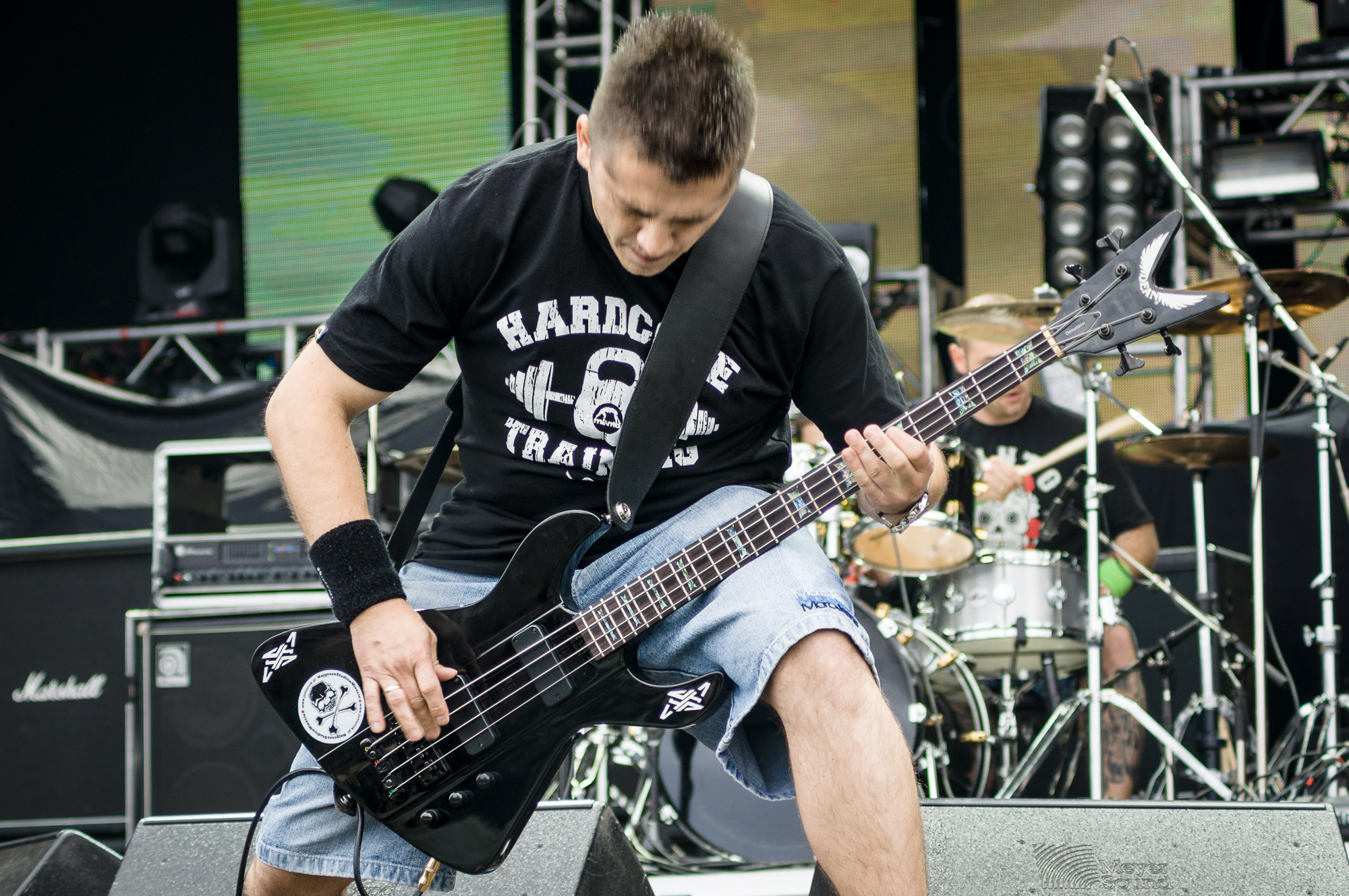 Piotr Szczęk - vocalist and bassist of Ametria band. Ursynalia 2012, Warsaw, Poland.